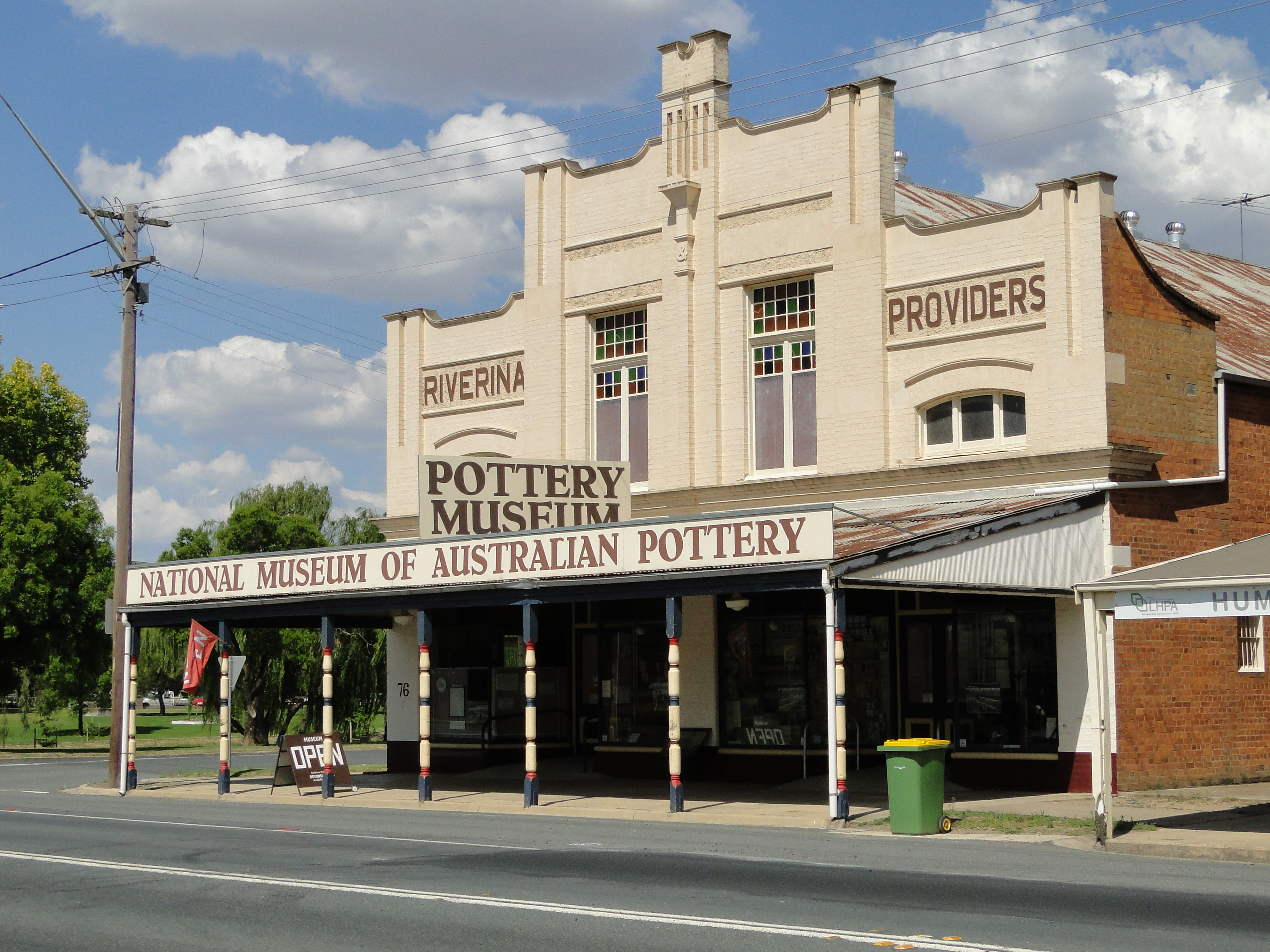 The outside of the National Pottery Museum at Holbrook, New South Wales